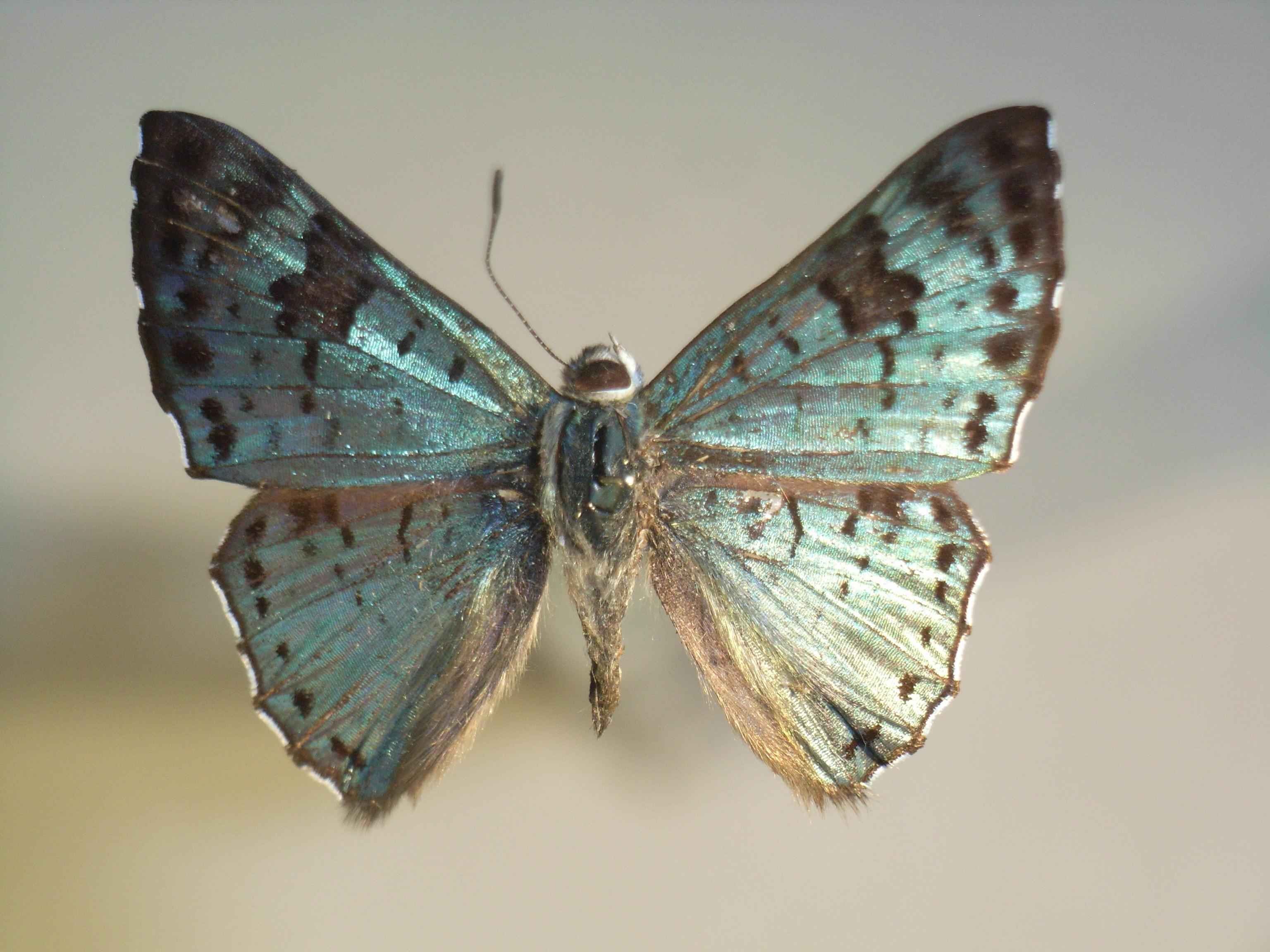 Lasaia agesilas narses:Riodinidae